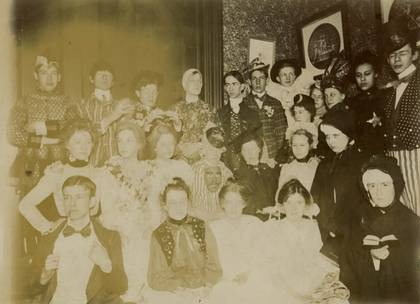 An costume party